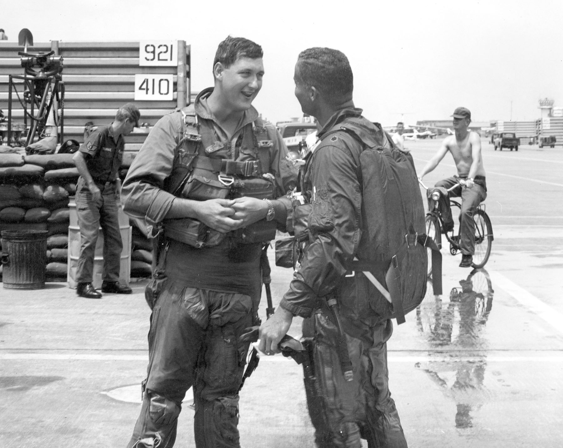 Charles McGee in Vietnam